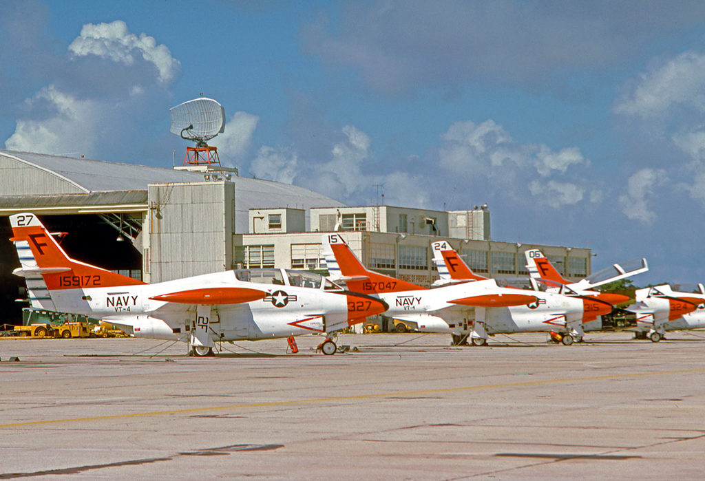 North American T-2C Buckeye 159172 of VT-4 Training Squadron US Navy at Pensacola NAS in 1975.